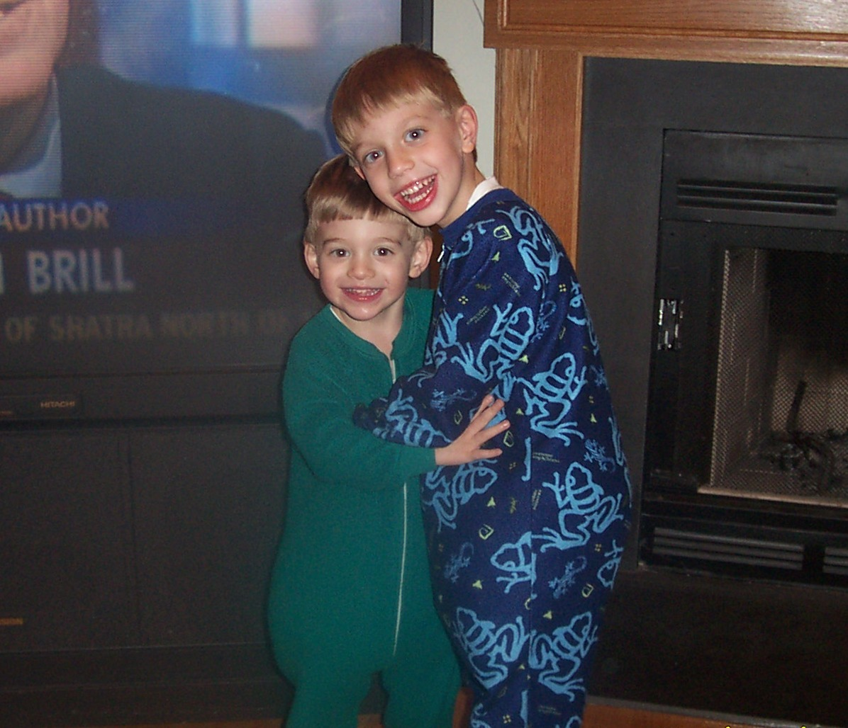 Kids in pajamas.